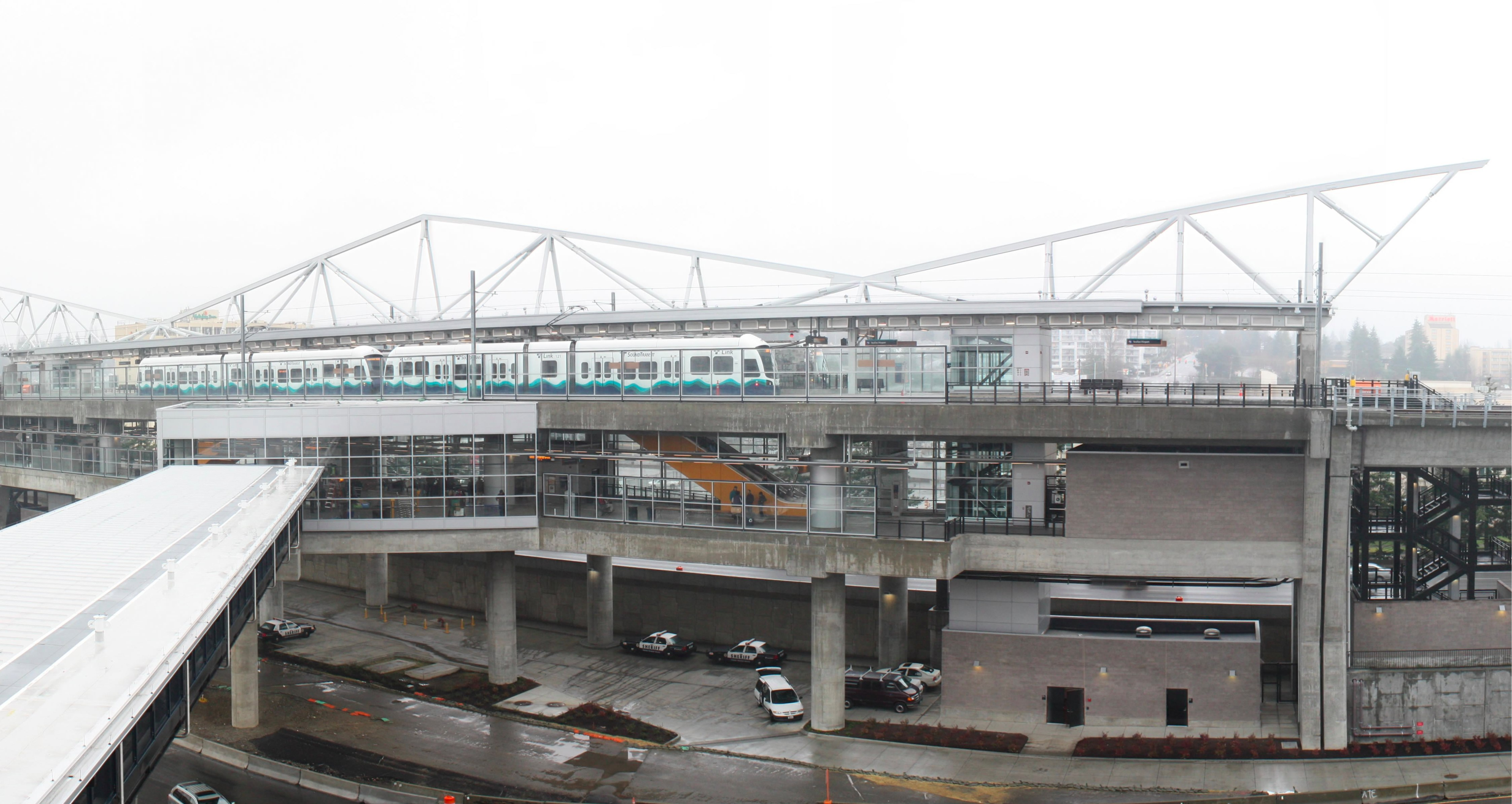 A wide panorama shot of Central Link light rail's SeaTac/Airport Station, taken on opening day. Cropped from Flickr original for use in small sizes.